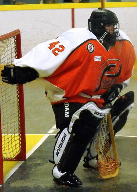 These images of Ontario Junior B Lacrosse Action action during the 2014 season are taken by Devan Mighton.